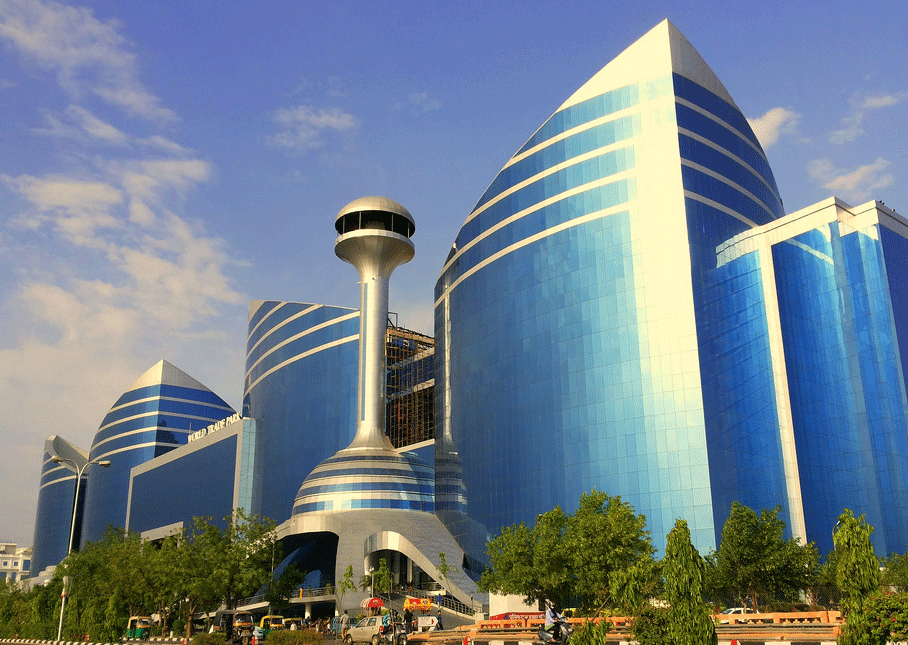 World Trade Park Mall in Jaipur